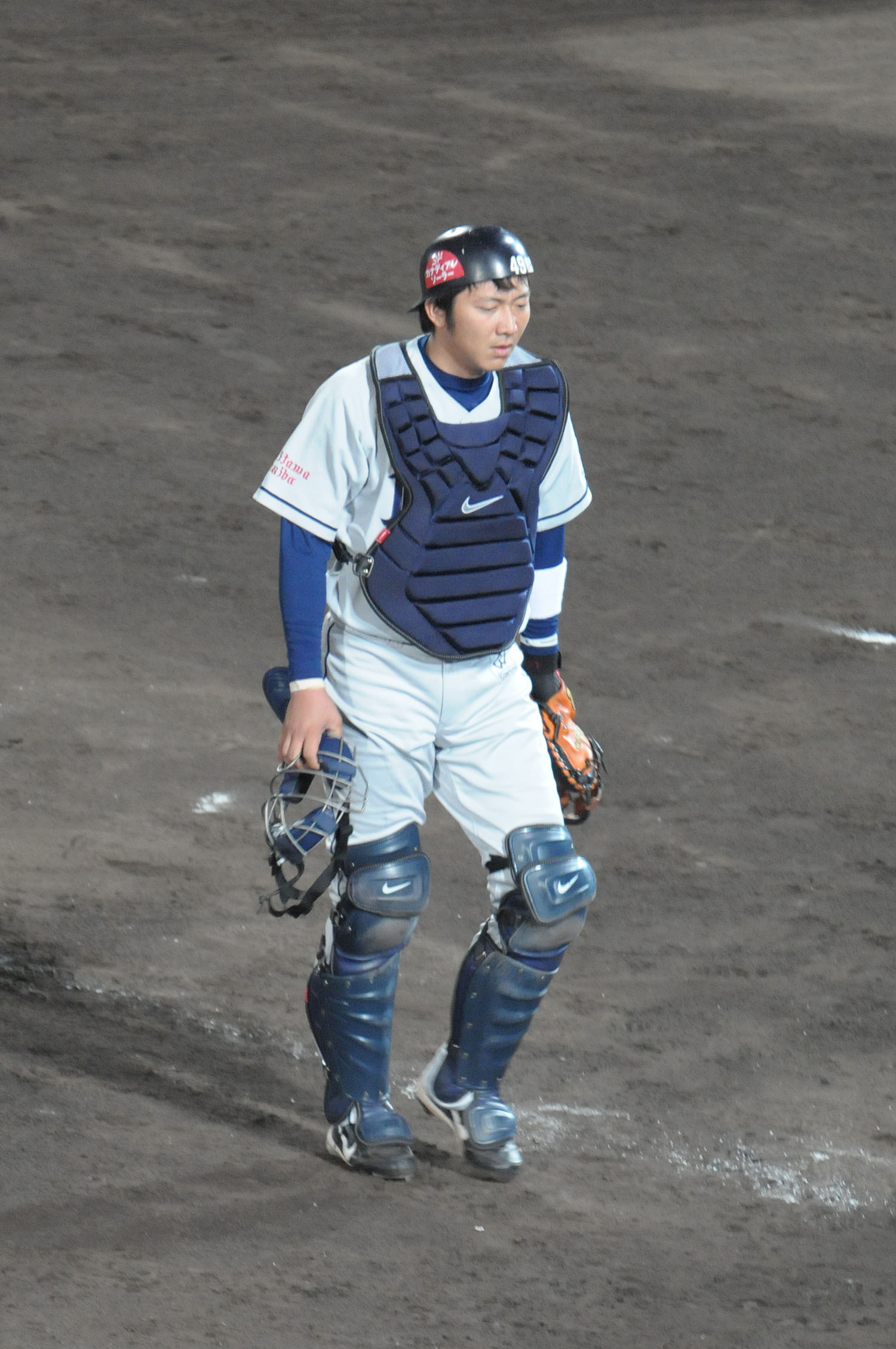 Tatsuyuki Uemoto, catcher of the Saitama Seibu Lions, at Akita Prefectural Baseball Stadium.